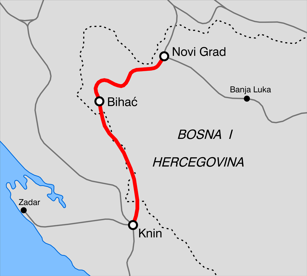 Map of the Una railway